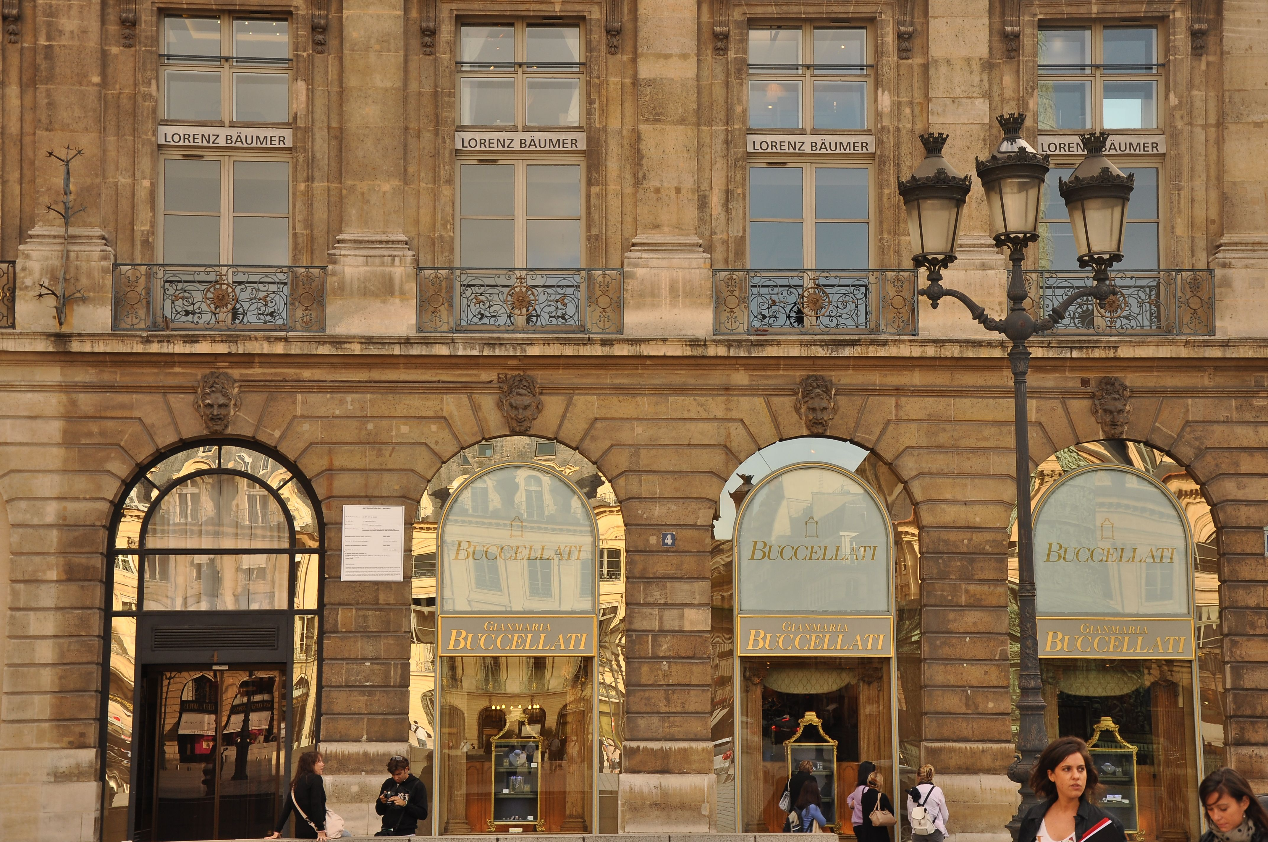 Hôtel Heuzé de Vologer at 4 place Vendôme in Paris, France